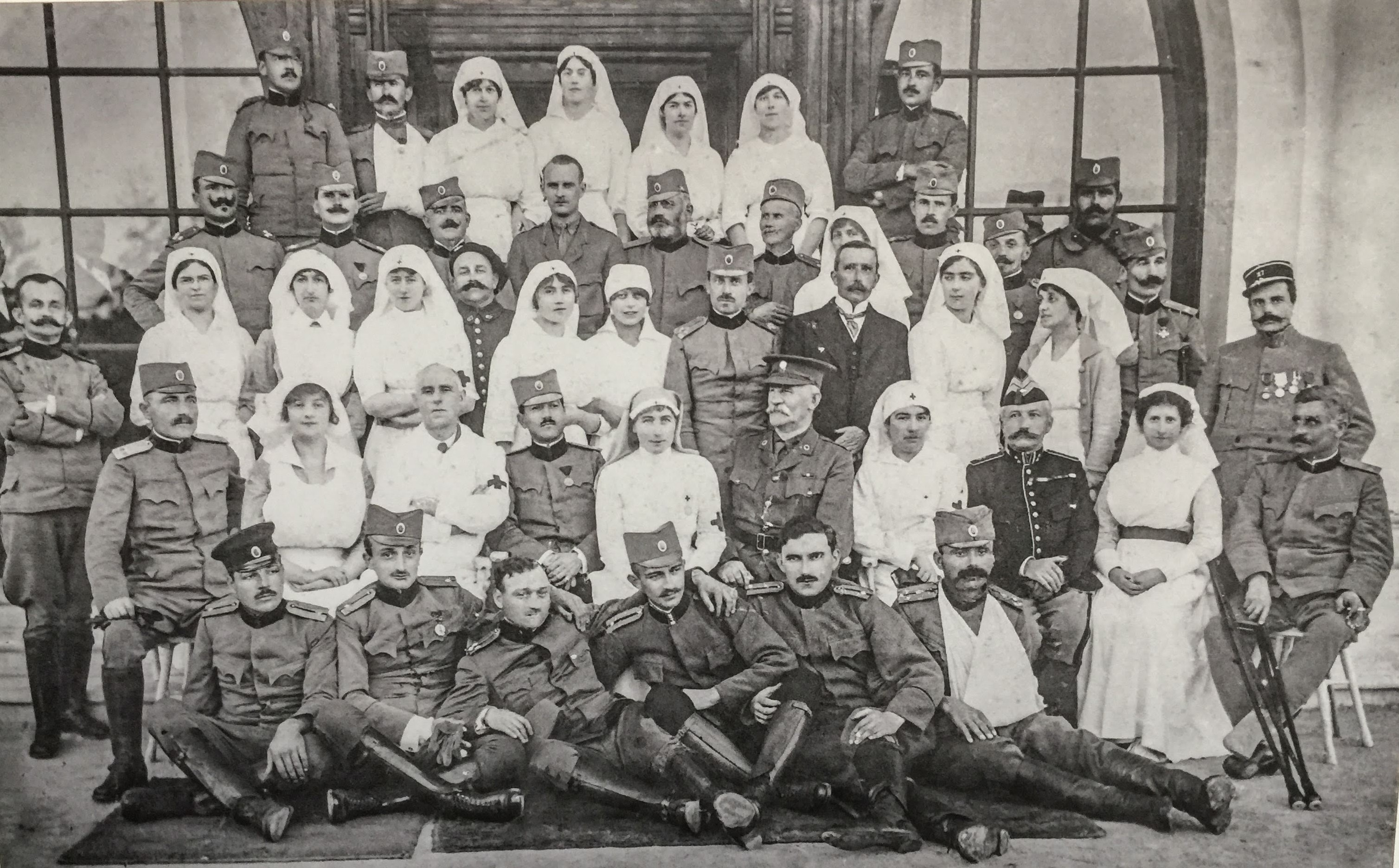 Military medical team on the Thessaloniki front 1916.